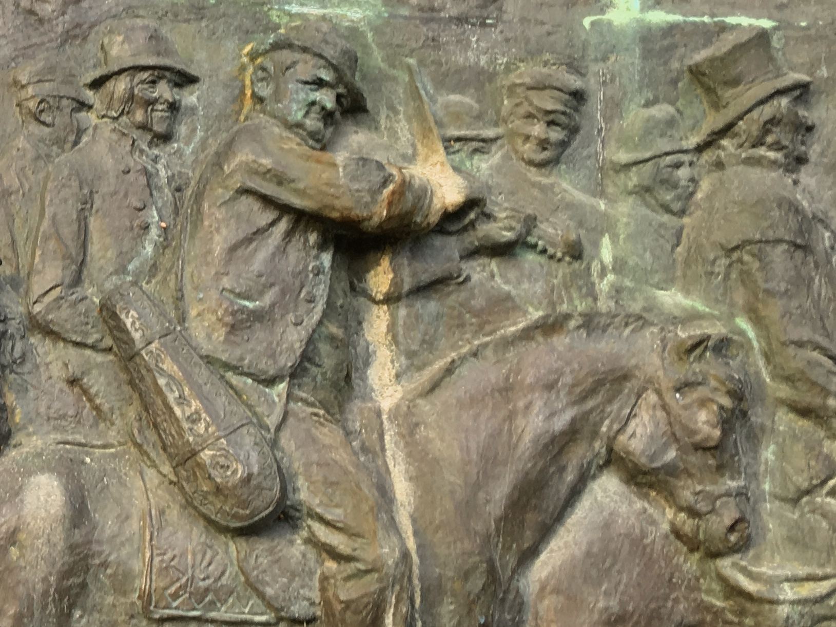 The relief "Ridande vossabrudlaup" by Nils Bergslien (1853–1928) was rected in 1921 in Vossevangen, Norway to the memory of the fiddle player Ola Mosefinn (1828–1912) and the traditional mounted wedding processions formerly customary to Voss. (Photo 25th of October 2016)